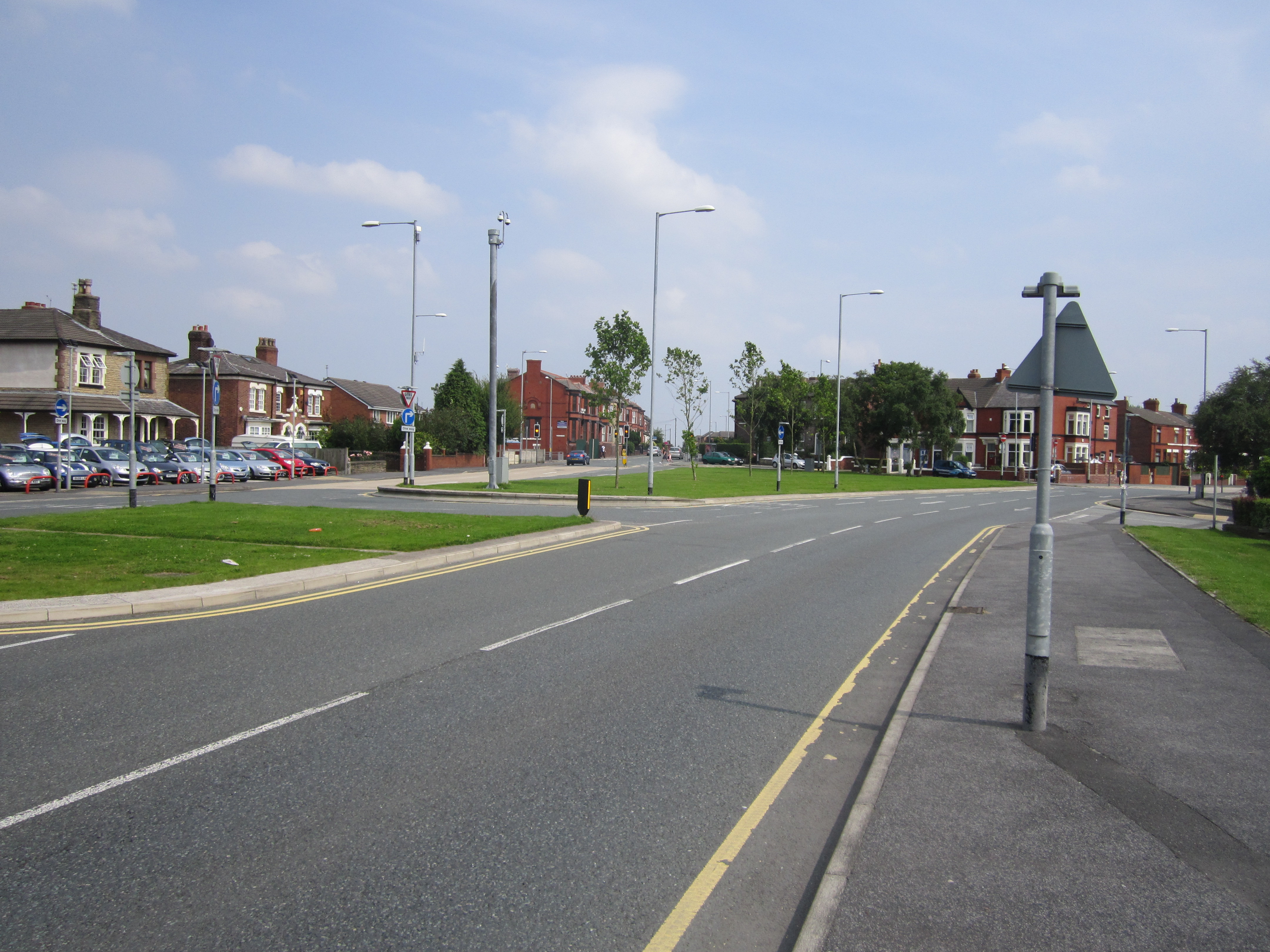 Photo taken at St Helens, Merseyside, England.